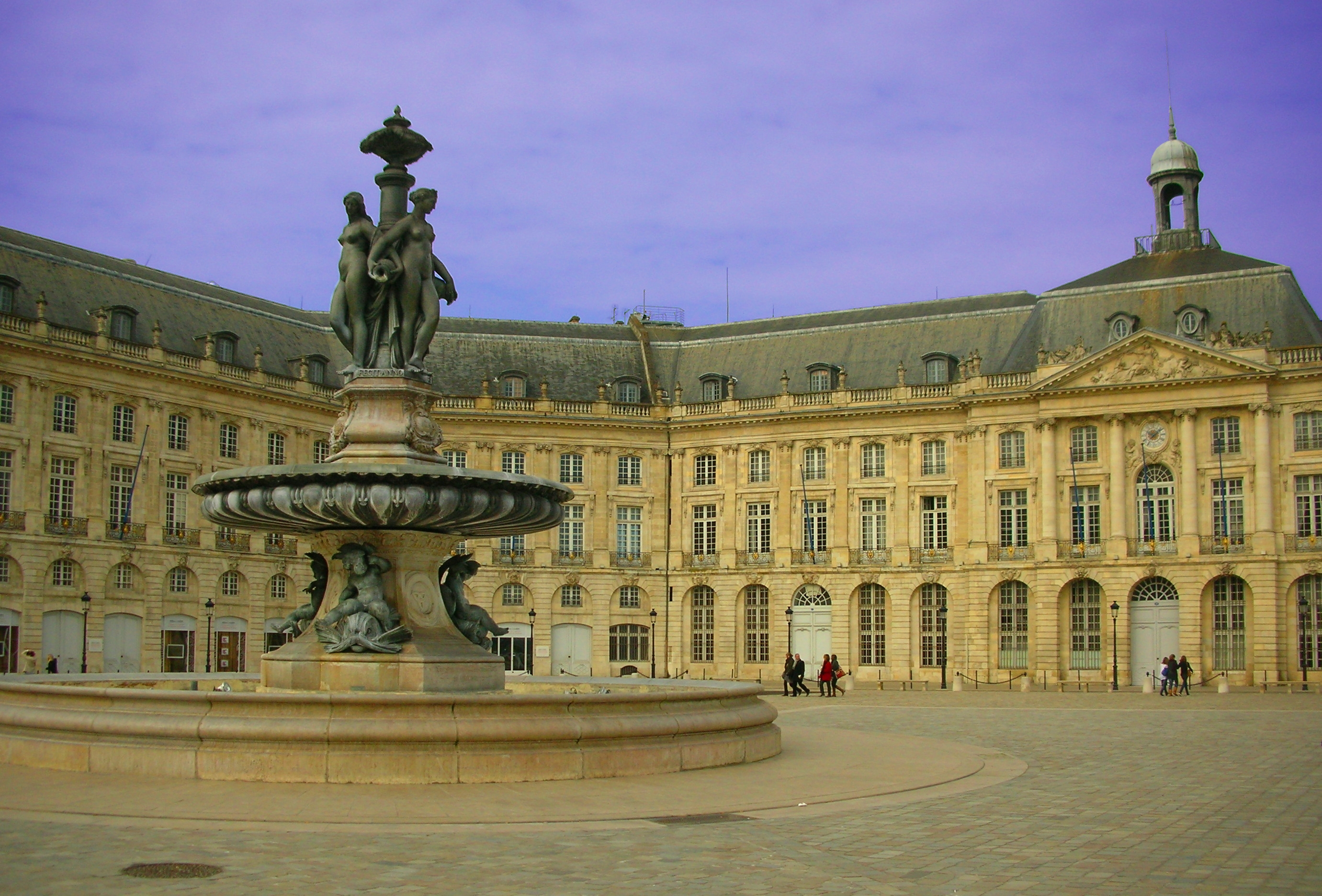 Emblematic "place de la Bourse" downtown Bordeaux, with the statue of the Three Graces, and the Chamber of Commerce in the back. Colours were "boosted" with Gimp for the needs of a poster.